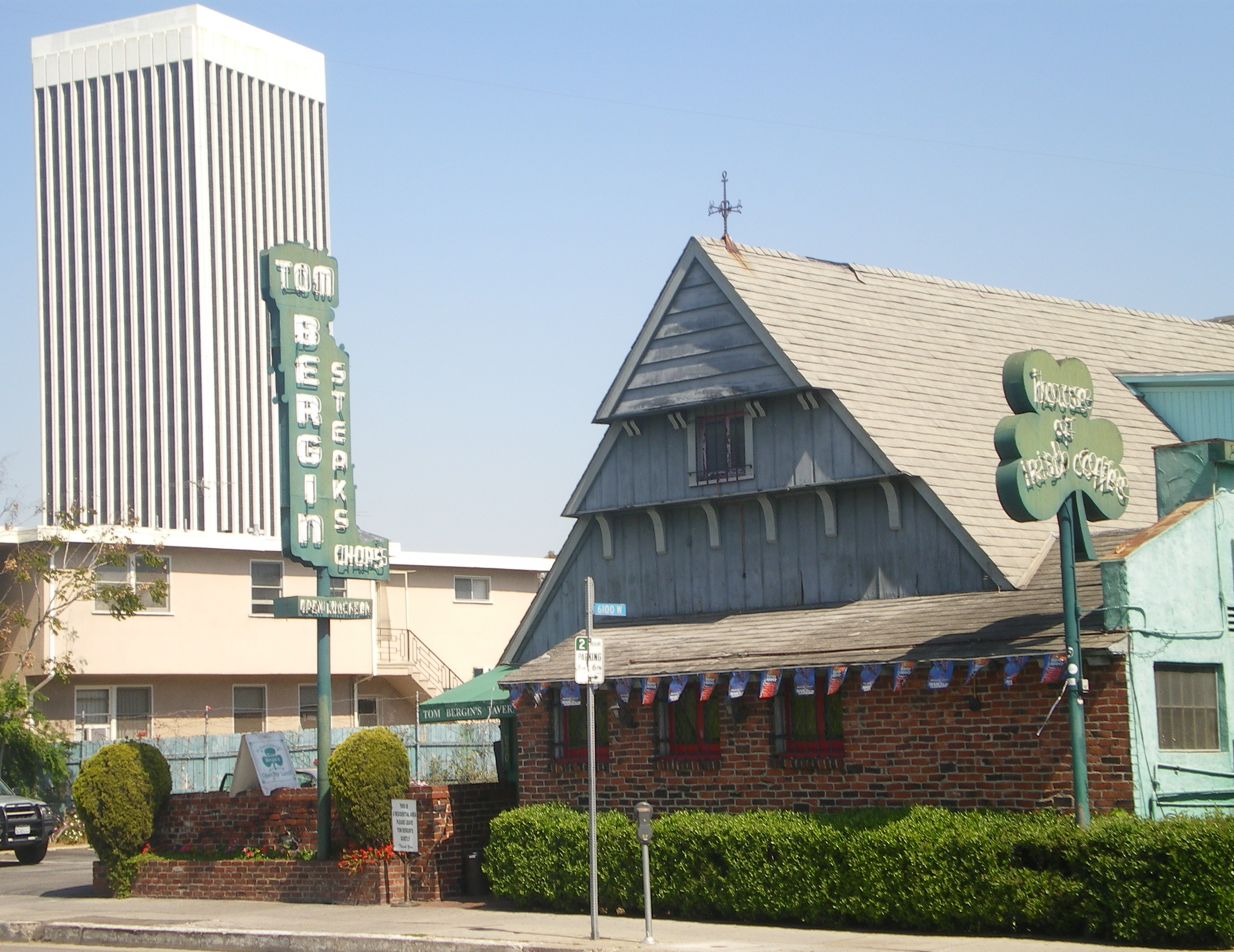 Tom Bergin's, Faifax, Los Angeles, CA Tom Bergin's, Faifax, Los Angeles, CA